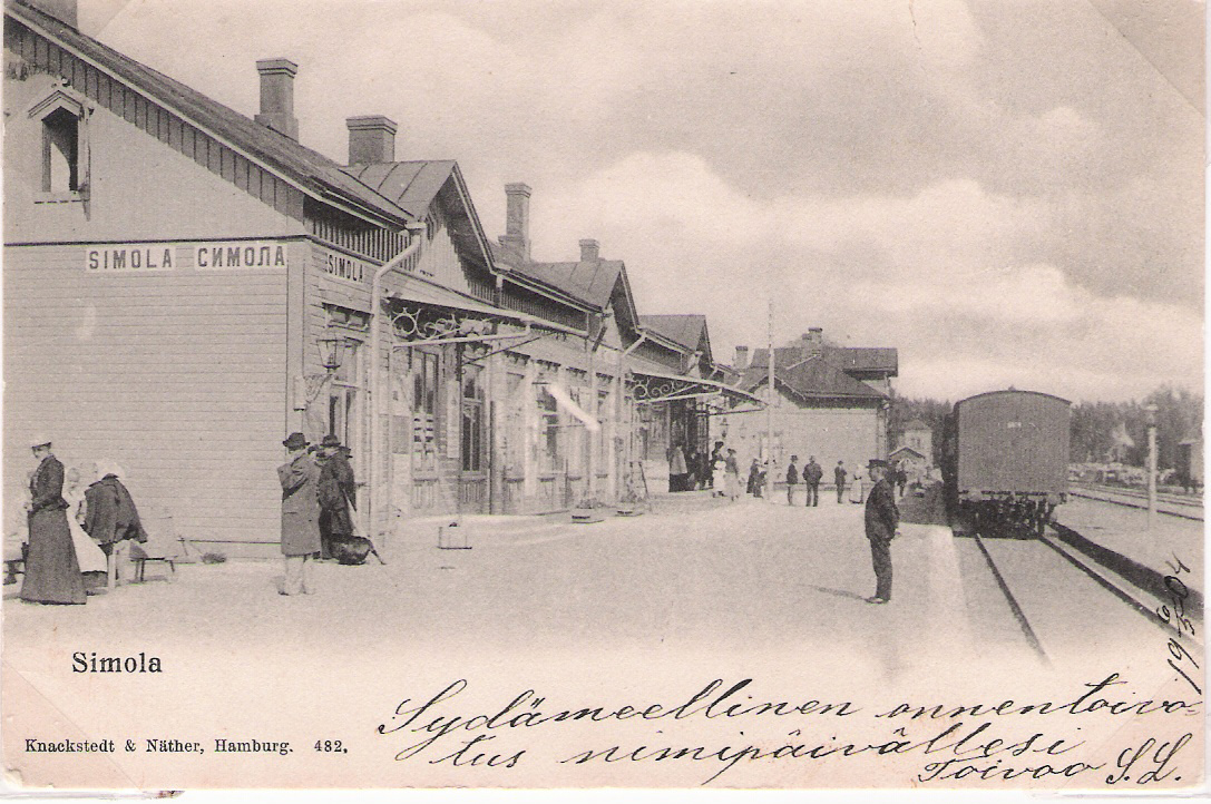 Simola railway station in Lappeenranta, Finland. Photograph taken in the 1900s.